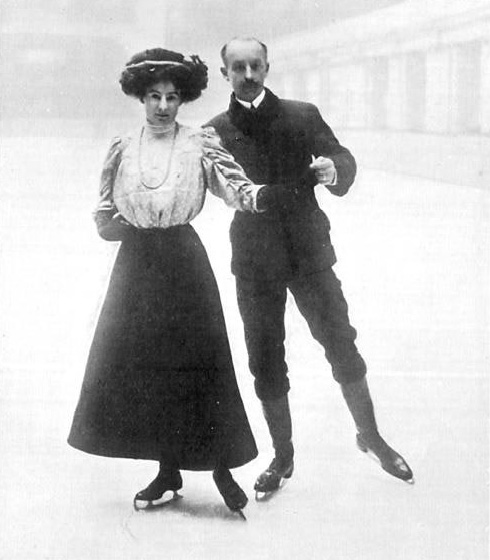 British skaters Edgar Syers and Florence "Madge" Syers, Summer Olympics 1908 in London.